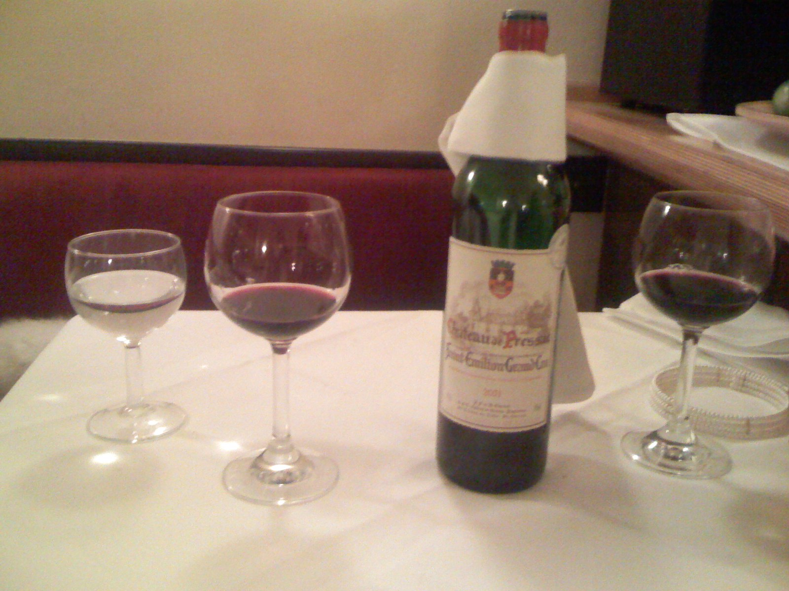 At Florians in Berlin. The drip cloth is used when pouring to keep wine from spilling down the label and dripping